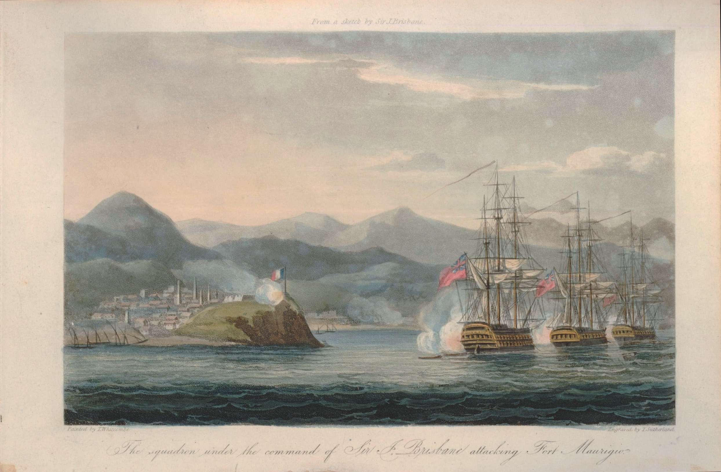 The Squadron under the command of Sir J Brisbane attacking Fort Maurigio. From a sketch by Sir James Brisbane. A British naval bombardment on April 11th 1814 of the French Port Maurigo, close to Monaco in the Mediterranean. The ships are HMS Aigle, HMS Alcmene, and HMS Pembroke, of which Brisbane was Captain. Port Maurigo is in modern day Imperia, Italy, in the Gulf of Genoa.